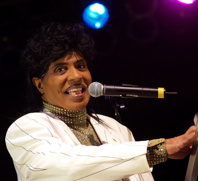 Little Richard performing at the University of Texas Forty Acres Festival in 2007.